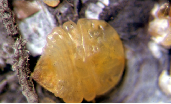 Adult female of Quadraspidiotus juglansregiae (Rhynchota: Diaspididae). The waxy cover was removed.